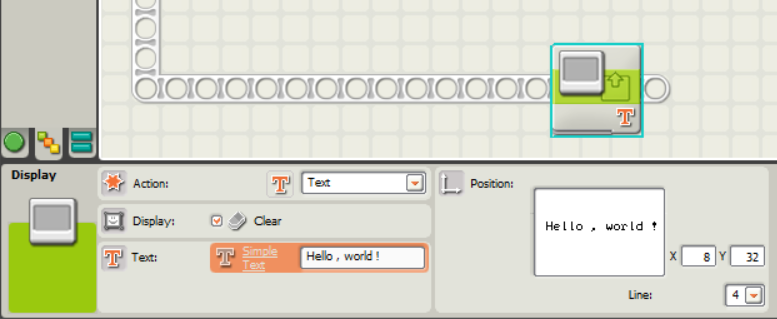 showing "Hello world !" on the robot's controller